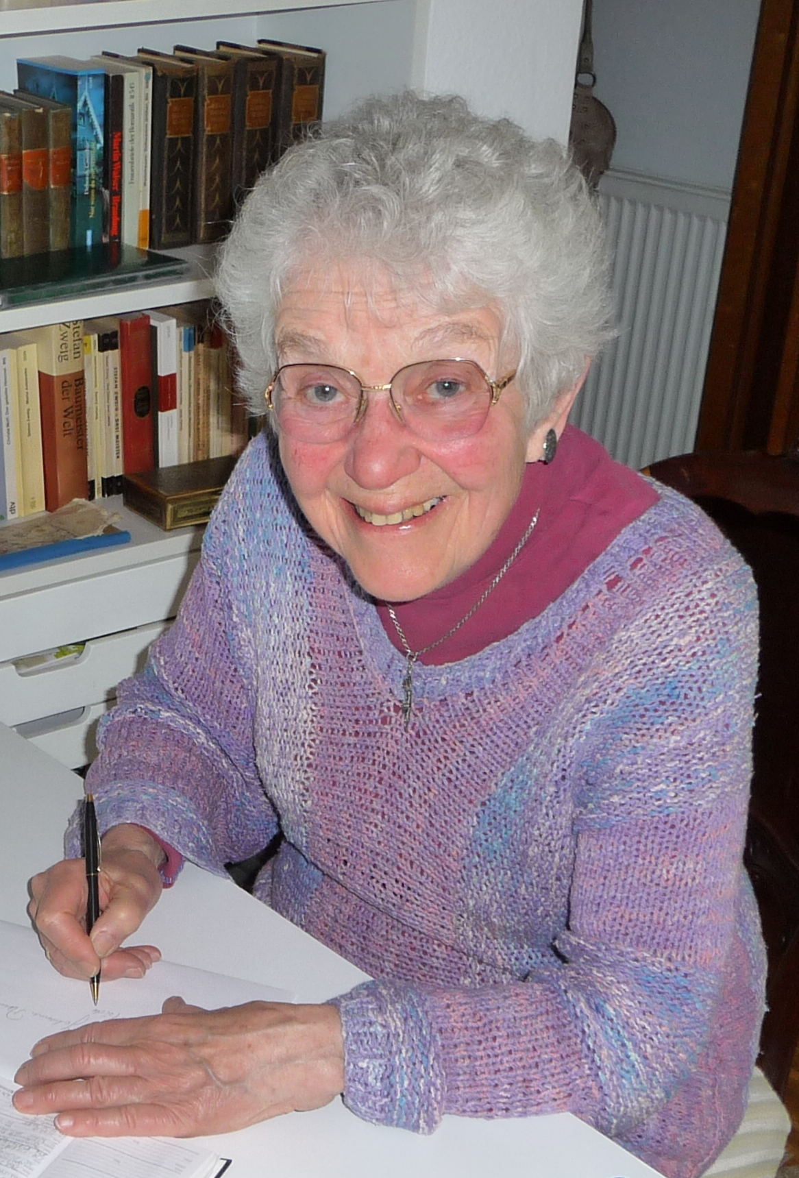 Laureen Nussbaum, a childhood friend of Anne Frank, will appear at Oregon State University as part of a week-long observance of Holocaust Memorial Week April 28 through May 2, 2014.